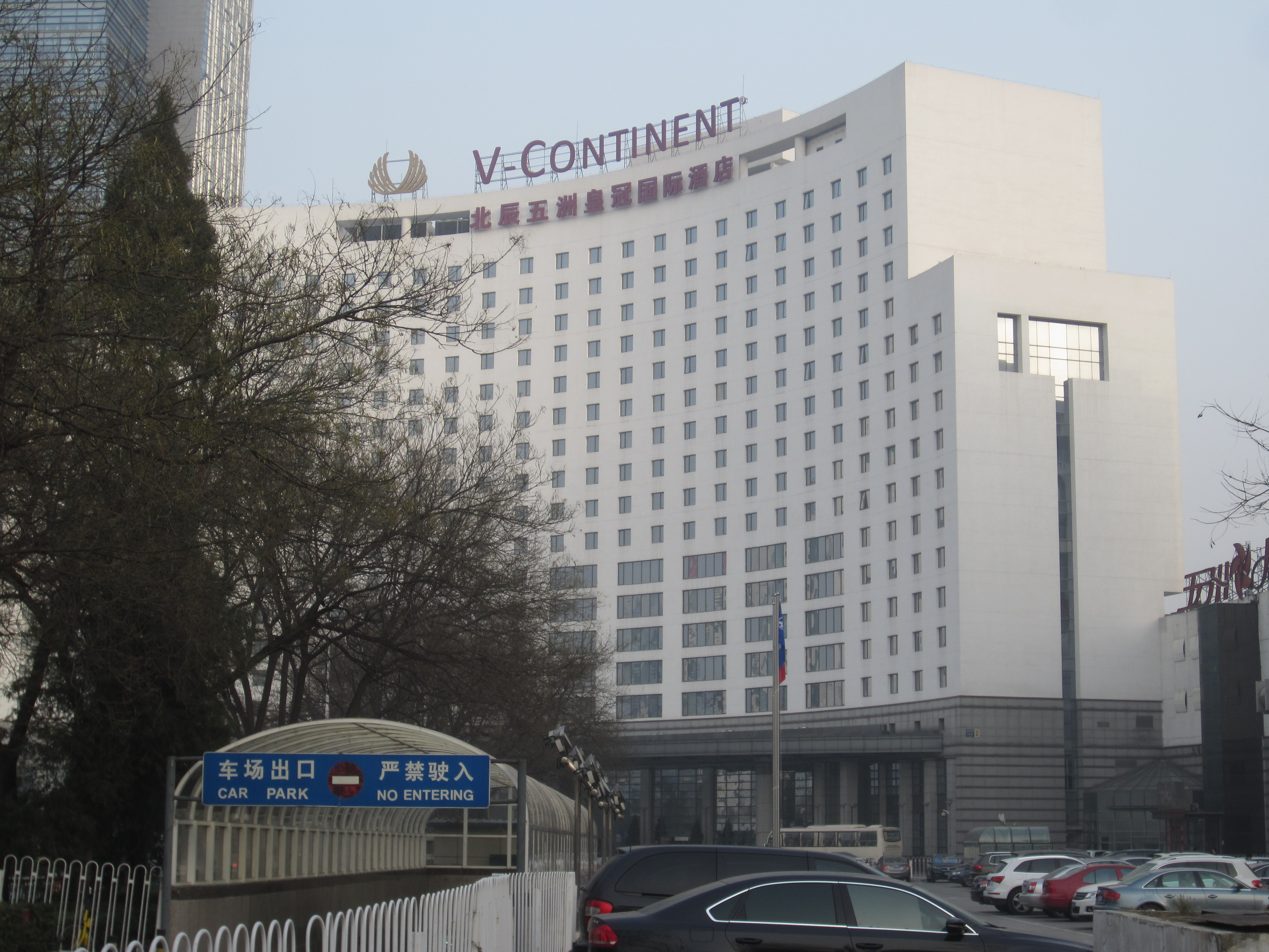 Beijing (November 2016)